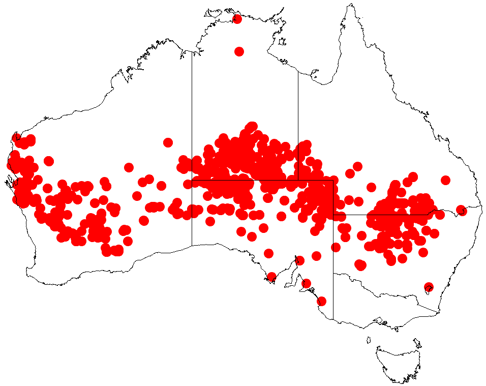 Acacia murrayana occurrence data from Australasian Virtual Herbarium downloaded from on 8 December 2018